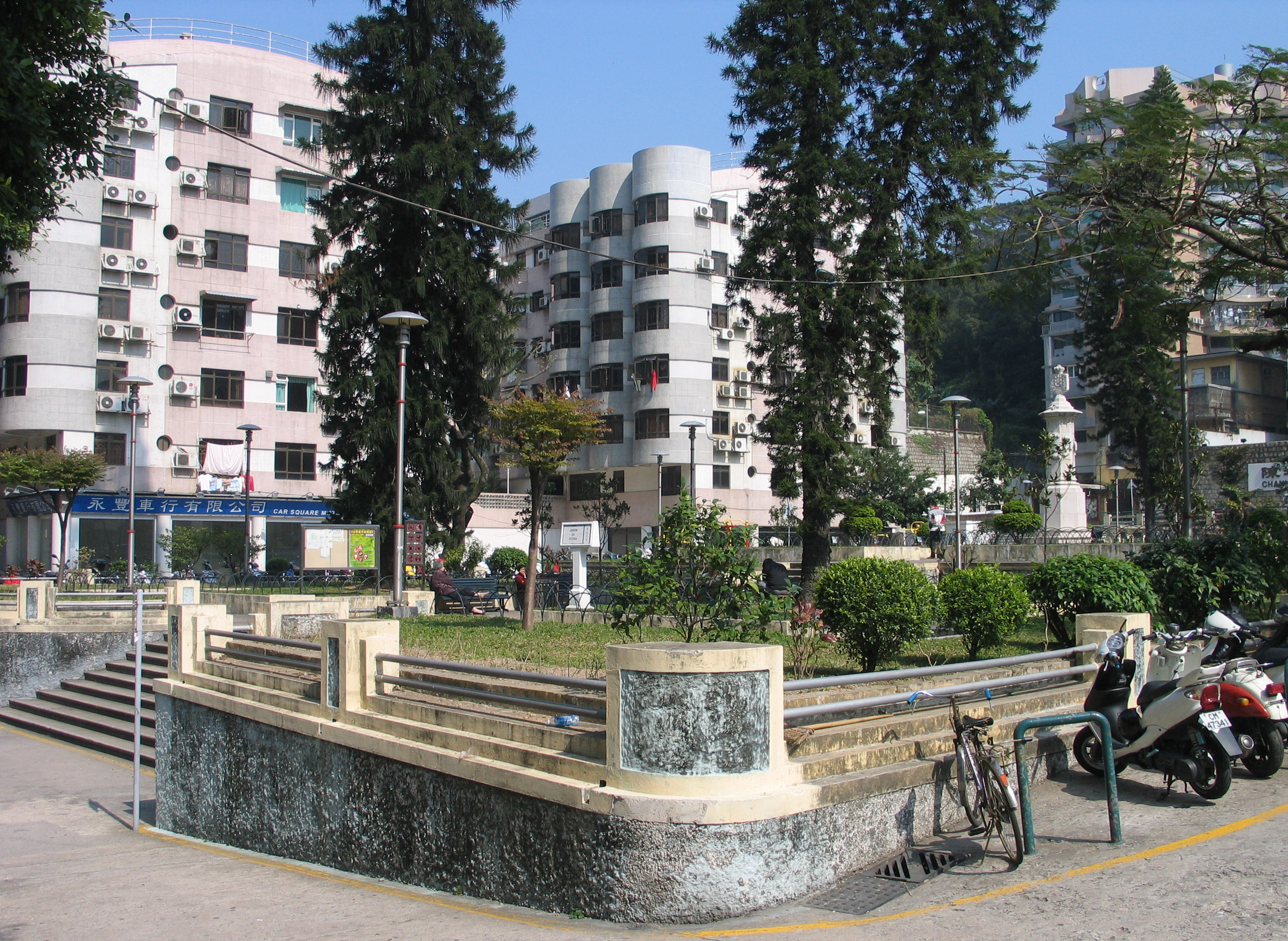 Jardim da Vitoria in Macao Source: taken by Glio